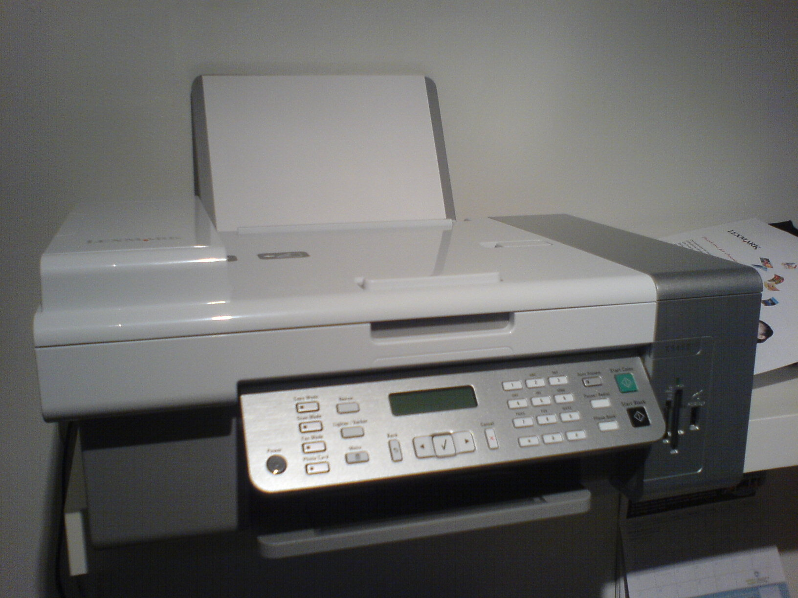 Lexmark X5450